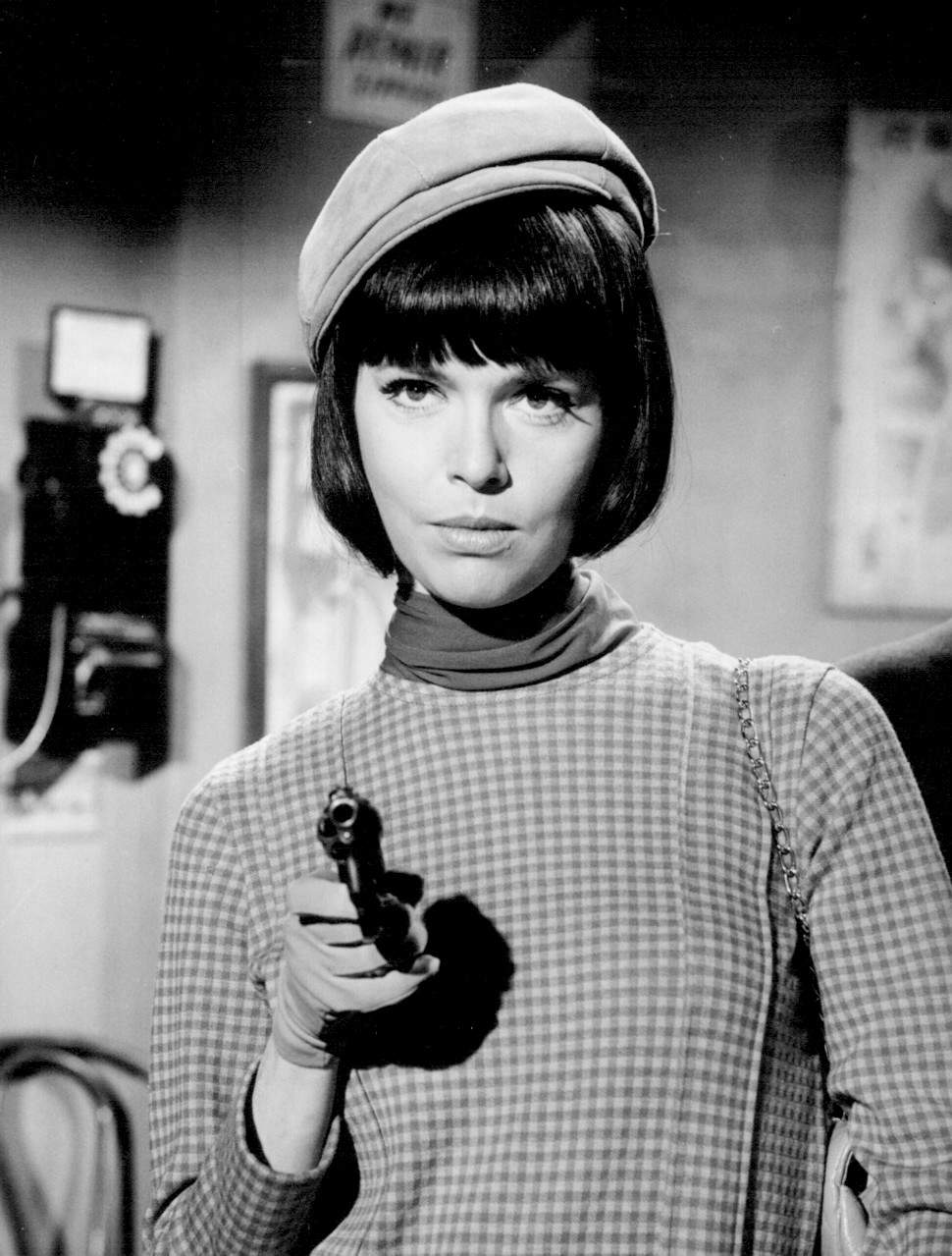 Photo of Barbara Feldon as Agent 99 from the television series Get Smart.